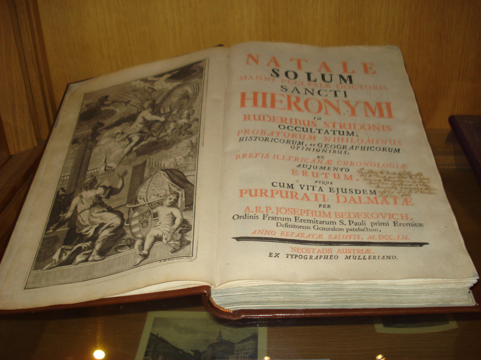 Josip Bedeković: "Natale solum magni ecclesiae dostoris sancti Hieronymi" (1752) - an old book exhibited in Medjimurje County Museum in Čakovec (Croatia)